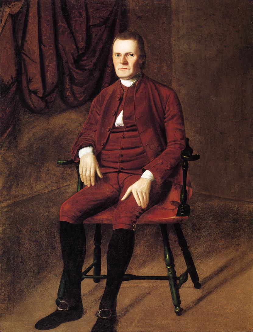 Portrait of Roger Sherman (1721-1793), M.A. (Hon.) 1768